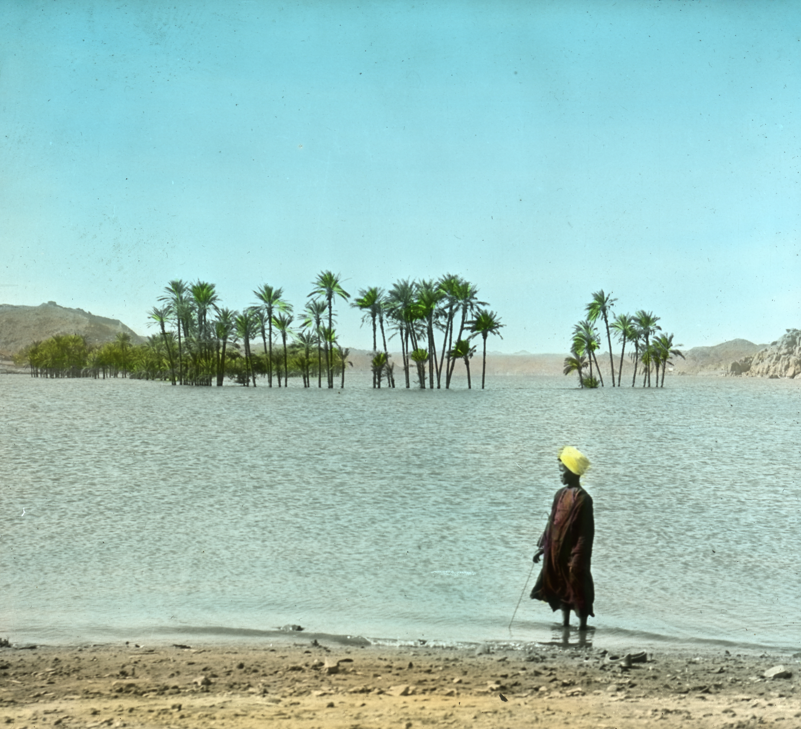 Lantern Slide Collection: Views, Objects: Egypt. General Views\People [selected images]. View 080: Partly submerged palms above Nile dam, Upper Egypt., 1908, Copyright, 1908, by Stereo-Travel Co. Brooklyn Museum Archives (S10|08 General Views_People, image 9823). Help us map this image by using Suggestify to suggest a location for it.